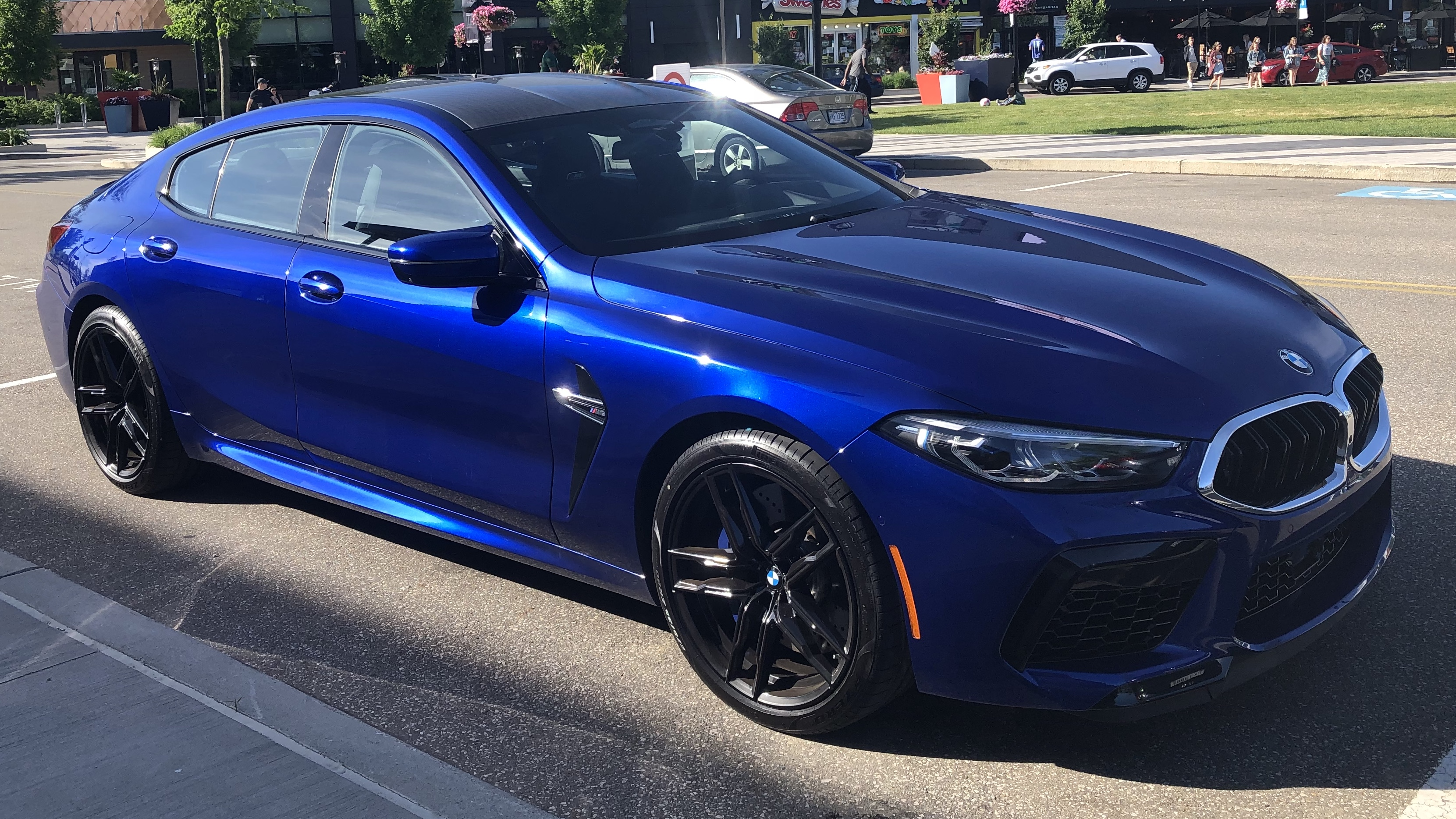 BMW M8 Gran Coupe in Marina Bay Blue metallic, 20” wheels